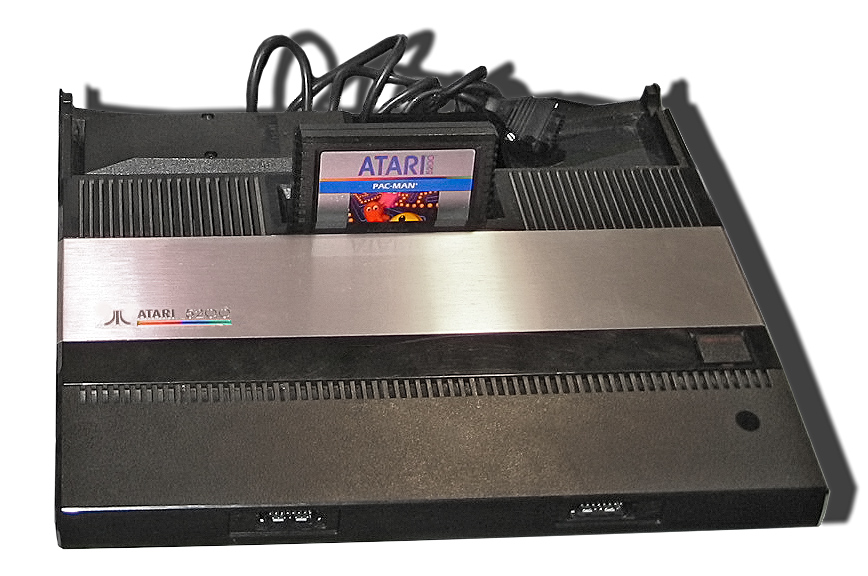 Atari 5200 game console with Pac Man game cartridge in place and controller at back. (Modified version of photo taken at the E3 2005).